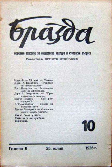 Magazine Brazda 1936